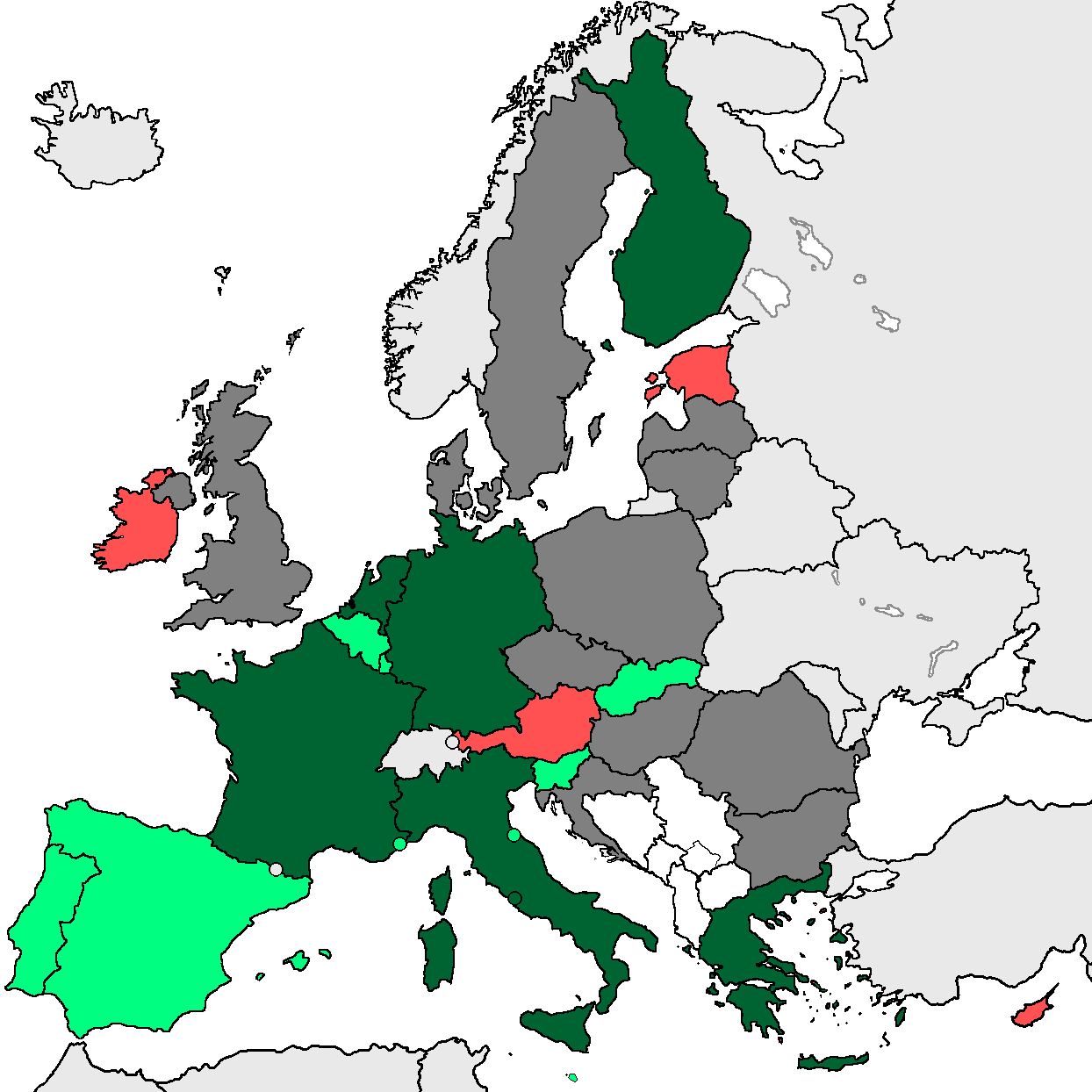 Map of eurozone member states which printed 2€ commemorative coin in 2013